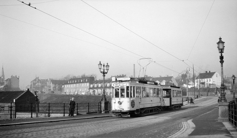 Bentsebrua with tram.